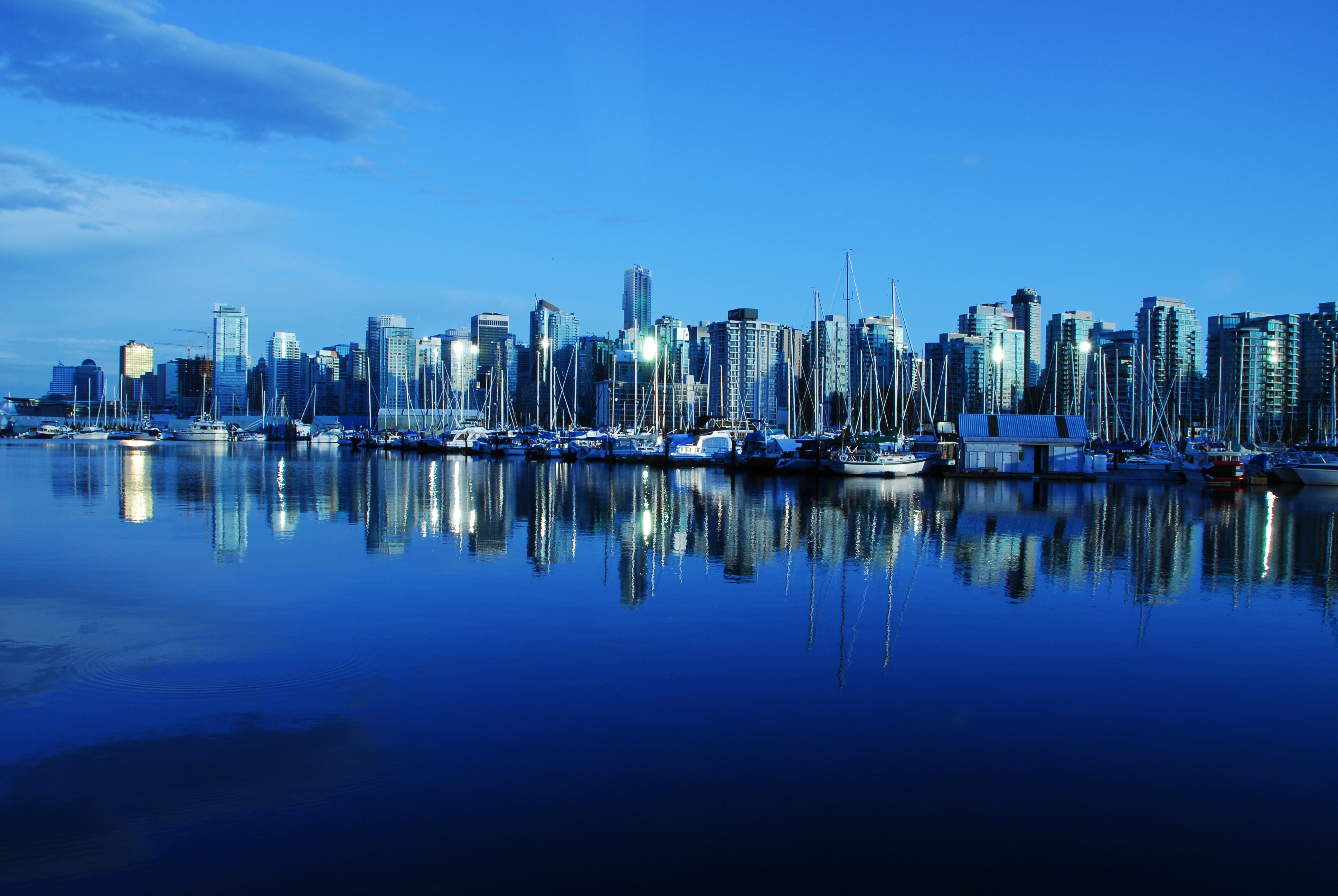 Vancouver City, BC,Canada